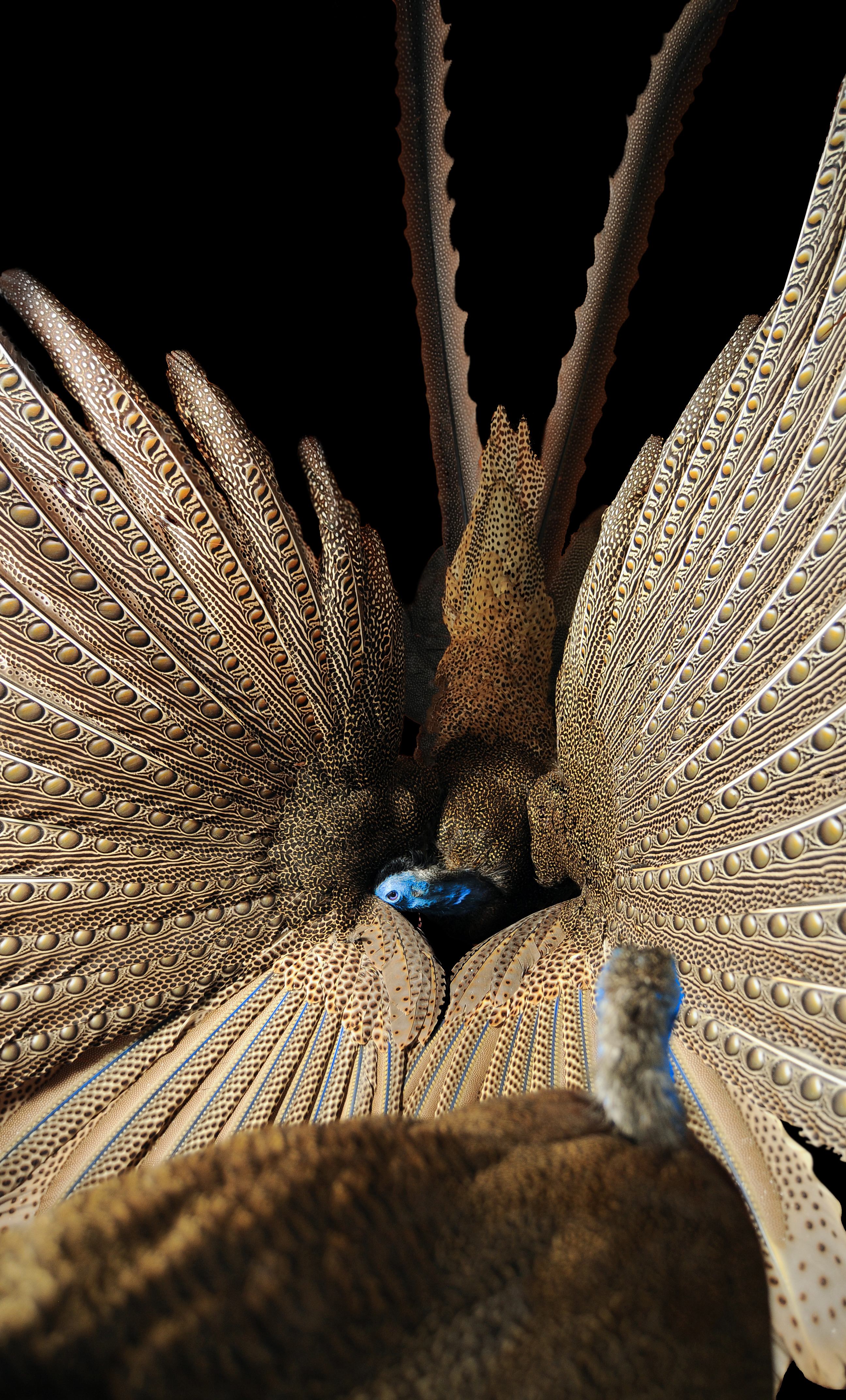 Taxidermy of Great Malay Argus Pheasant